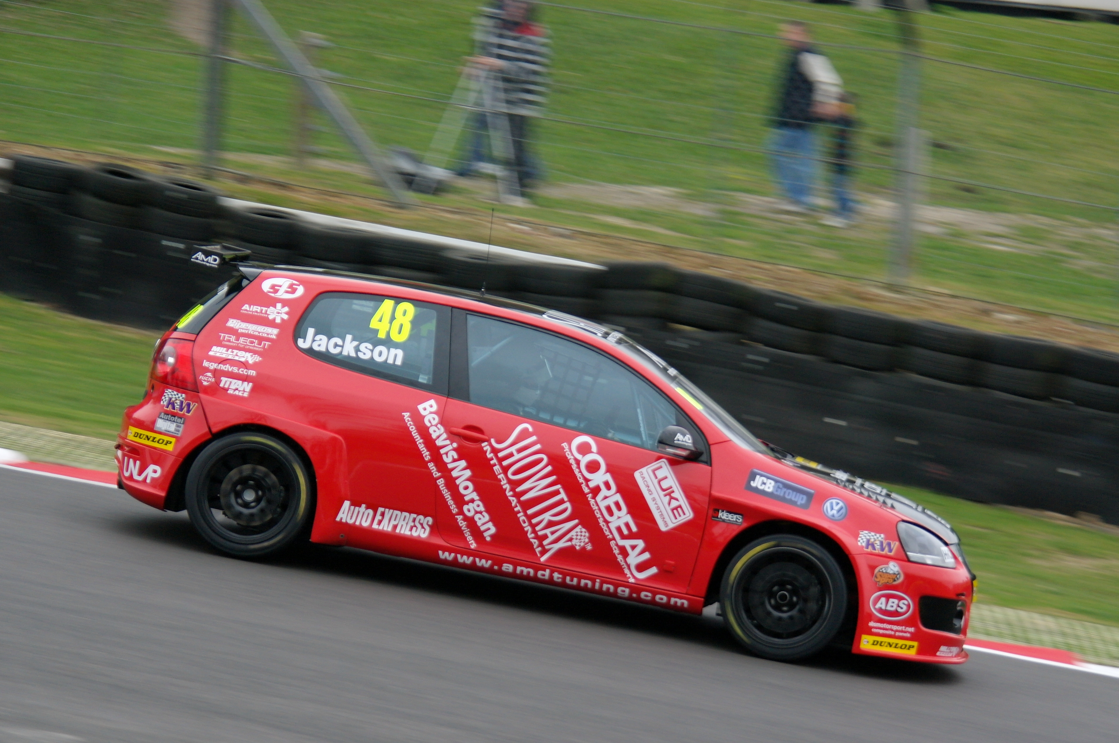 Ollie Jackson competing at Brands Hatch as a driver for AmD Essex in the 2012 British Touring Car Championship, Round 1.